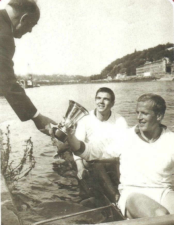 AZS Wrocław (K. Naskręcki, M. Siejkowski) at European Championships in 1964